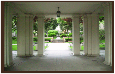 This is a picture of an antryway to Boulevard Gardens